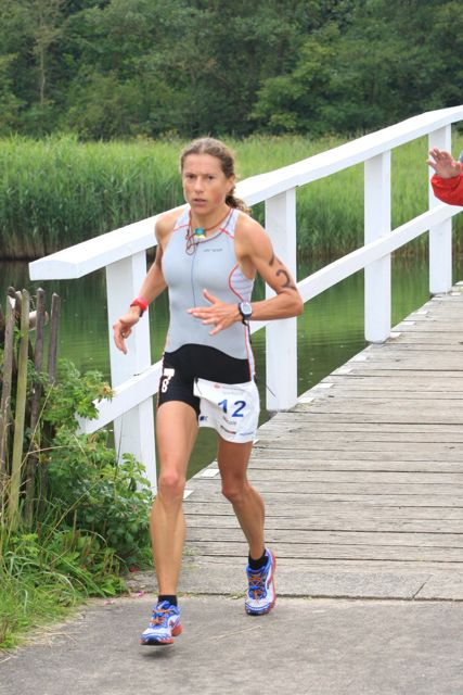 Nicole Woysch beim Ostseeman 2009